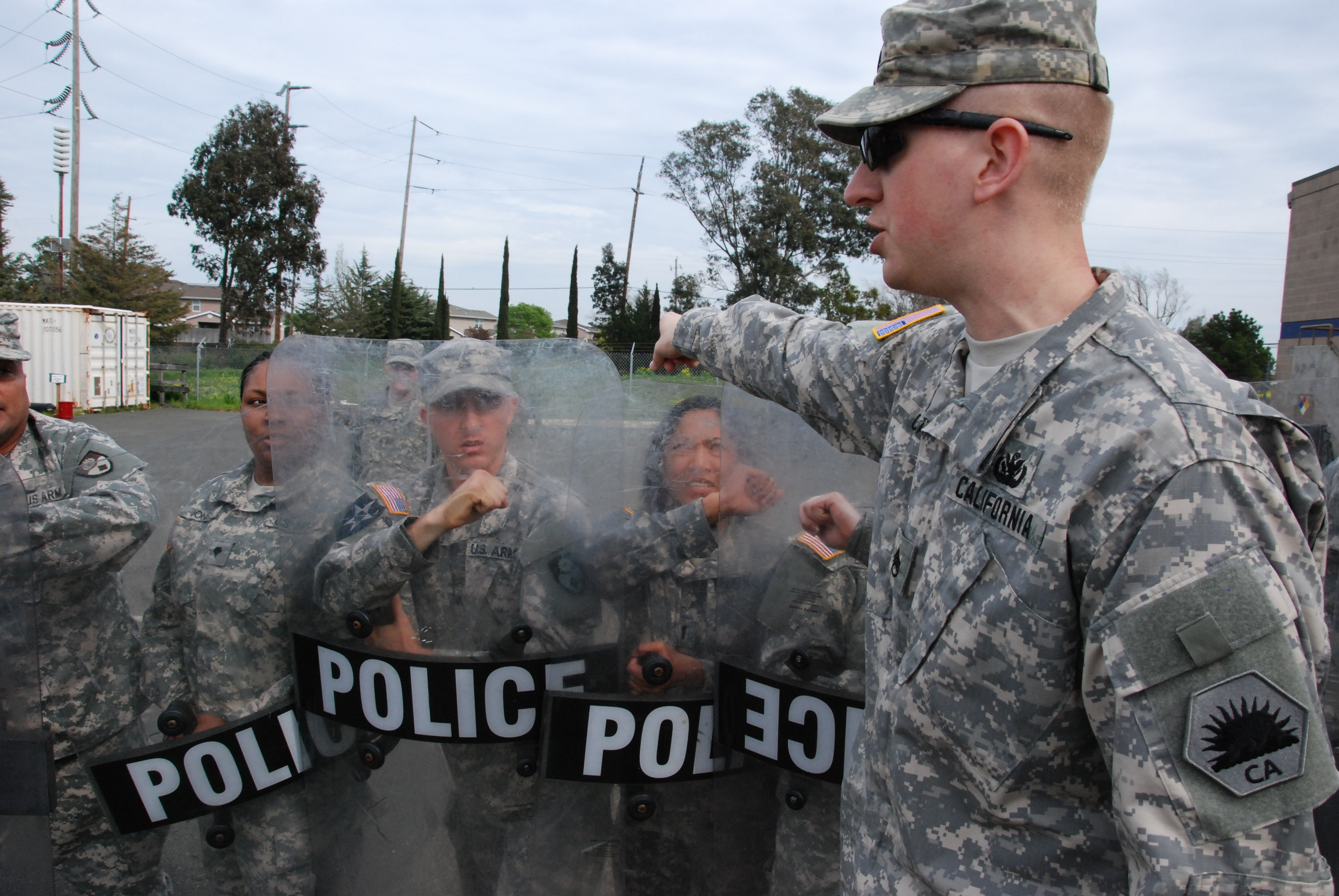 California State Military Reserve Staff Sgt. Andrew Cater, the acting first sergeant of Alpha Company, Northern Regional Support Command, participates in a crowd control class given to members of the 69th Public Affairs Detachment and Headquarters and Headquarters Company, 49th Military Police Brigade, in Fairfield Calif., March 2, 2013. CSMR soldiers' skill sets are a crucial training asset to the California Army National Guard. (Army National Guard photo/Capt. Will Martin/Released)